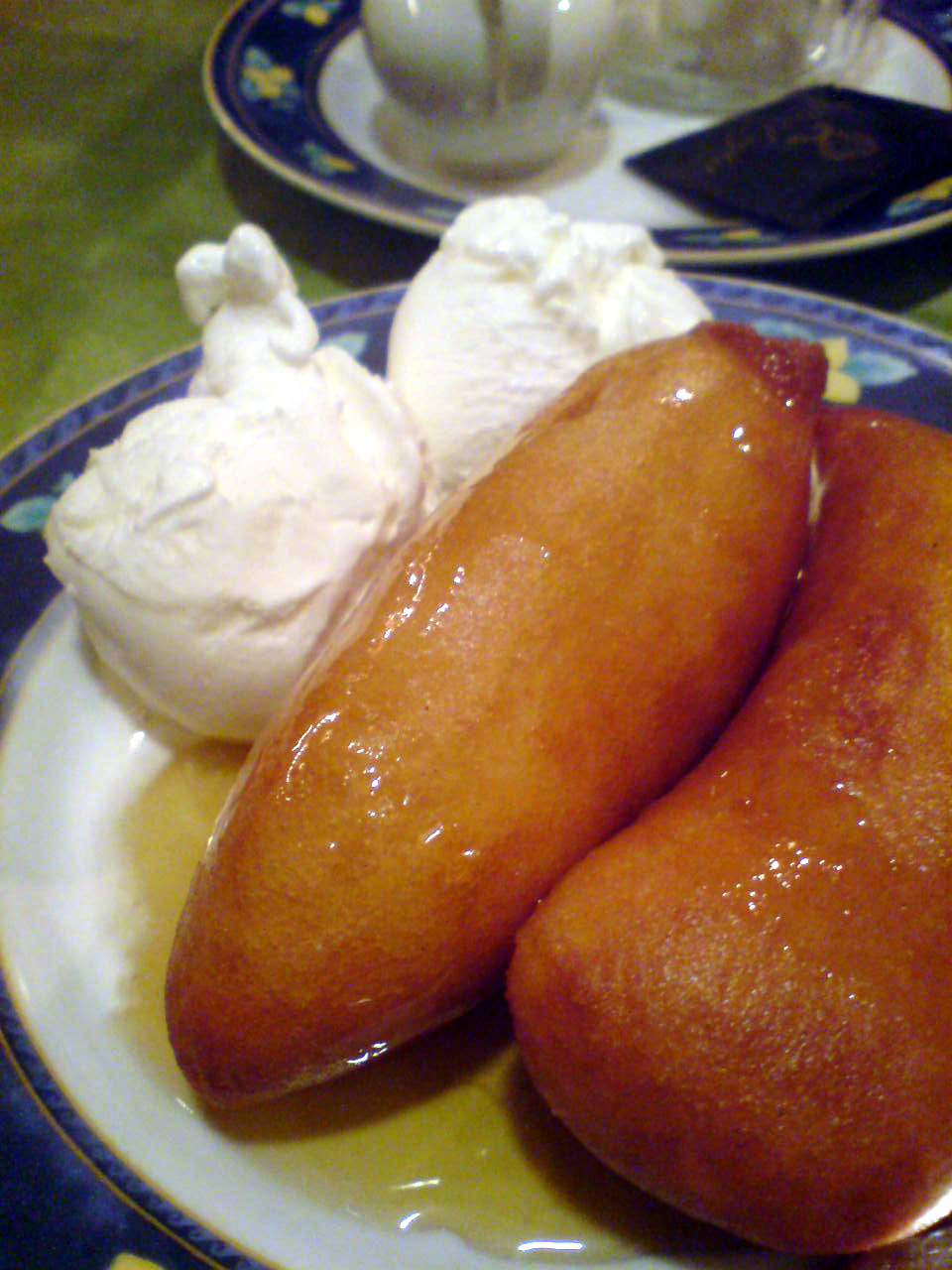 Fried bananas with ice cream